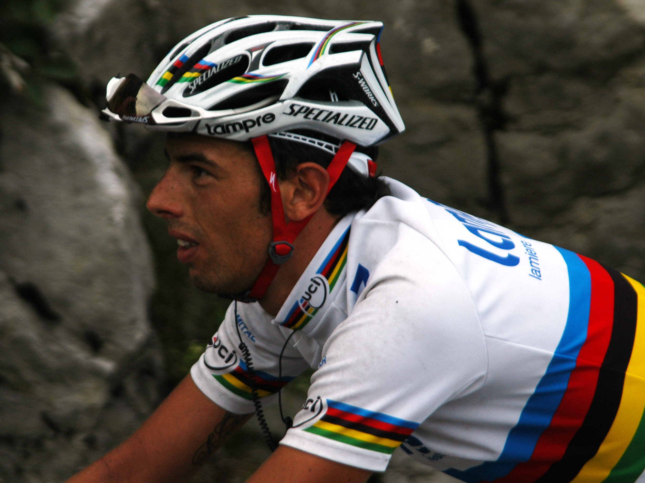 Alessandro Ballan (ITA) at stage 17 of the 2009 Tour de France on the Col de la Colombière.